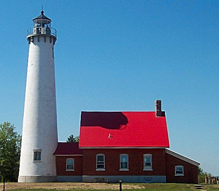 Image of the Tawas Point Lighthouse